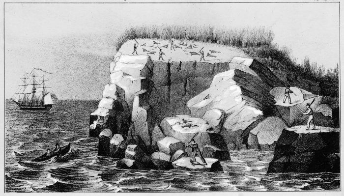 View of a seal rookery, Beauchene Island, Falkland Islands.